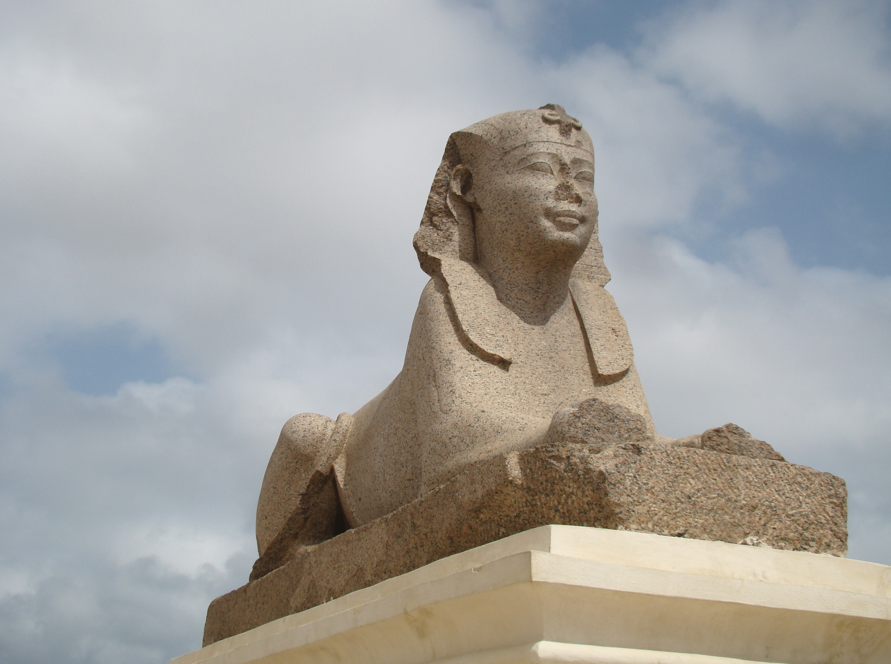 AWIB-ISAW: Sphinxes at the Serapeum of Alexandria (II) These sphinxes actually date to an earlier period of the temple complex and were excavated from the southern part of the complex and only later moved near Diocletian's Column. by Iris Fernandez (2009) copyright: 2009 Iris Fernandez (used with permission) photographed place: Alexandria [ Published by the Institute for the Study of the Ancient World as part of the Ancient World Image Bank (AWIB). Further information: [